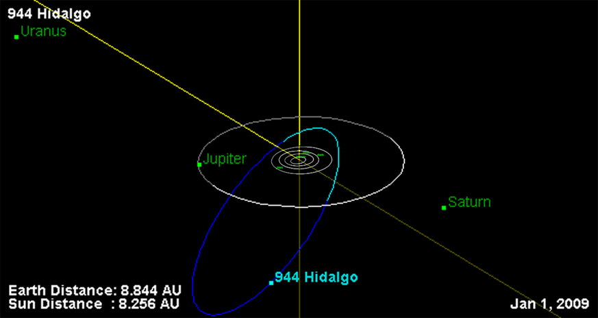 Trajectory of 944 Hidalgo